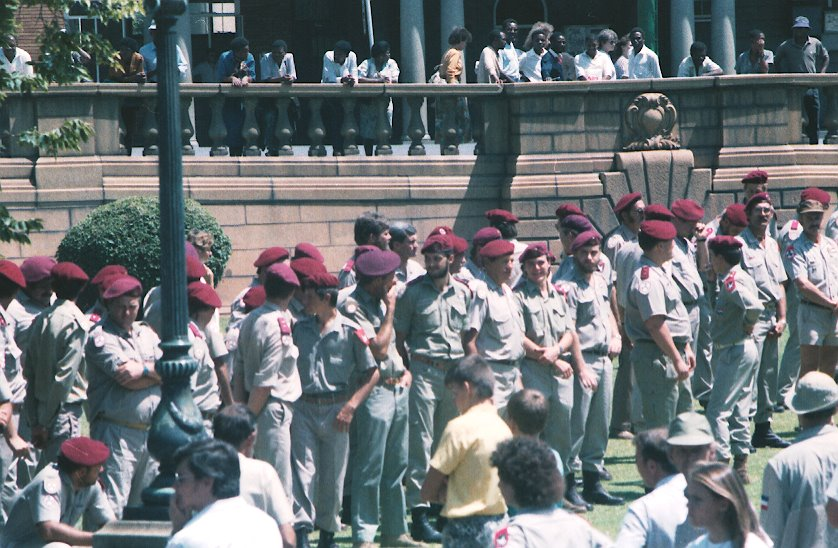 Paramilitary members of the Afrikaner Weerstandsbeweging (AWB) in South Africa. Taken at a rally held by the right-wing organisation in Pretoria in 1990.